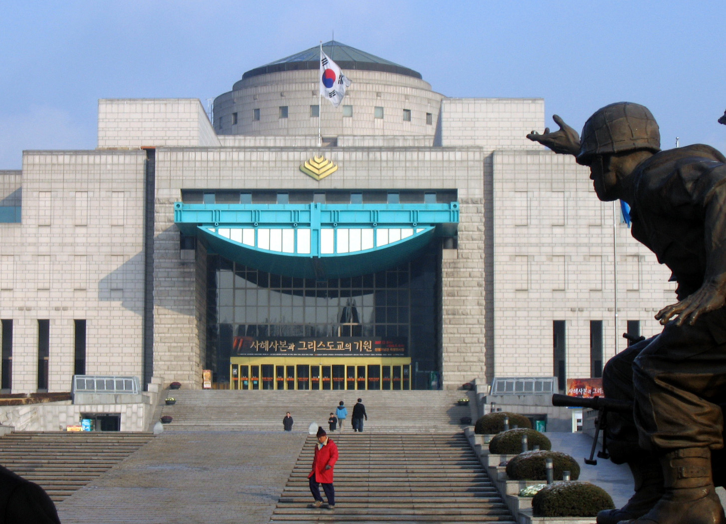 Korean War Monuments